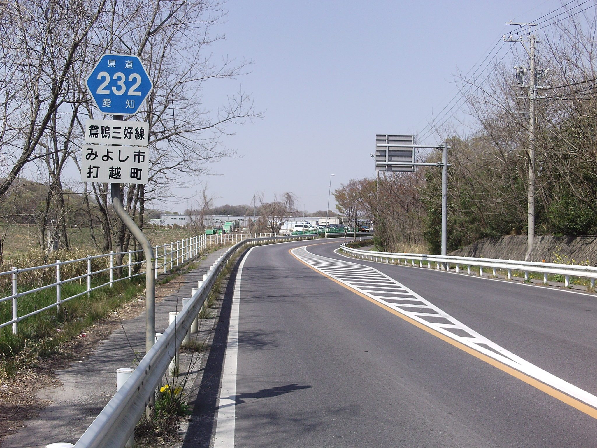 Aichi prefectural road No.232 in Uchikoshicho, Miyoshi, Aichi.